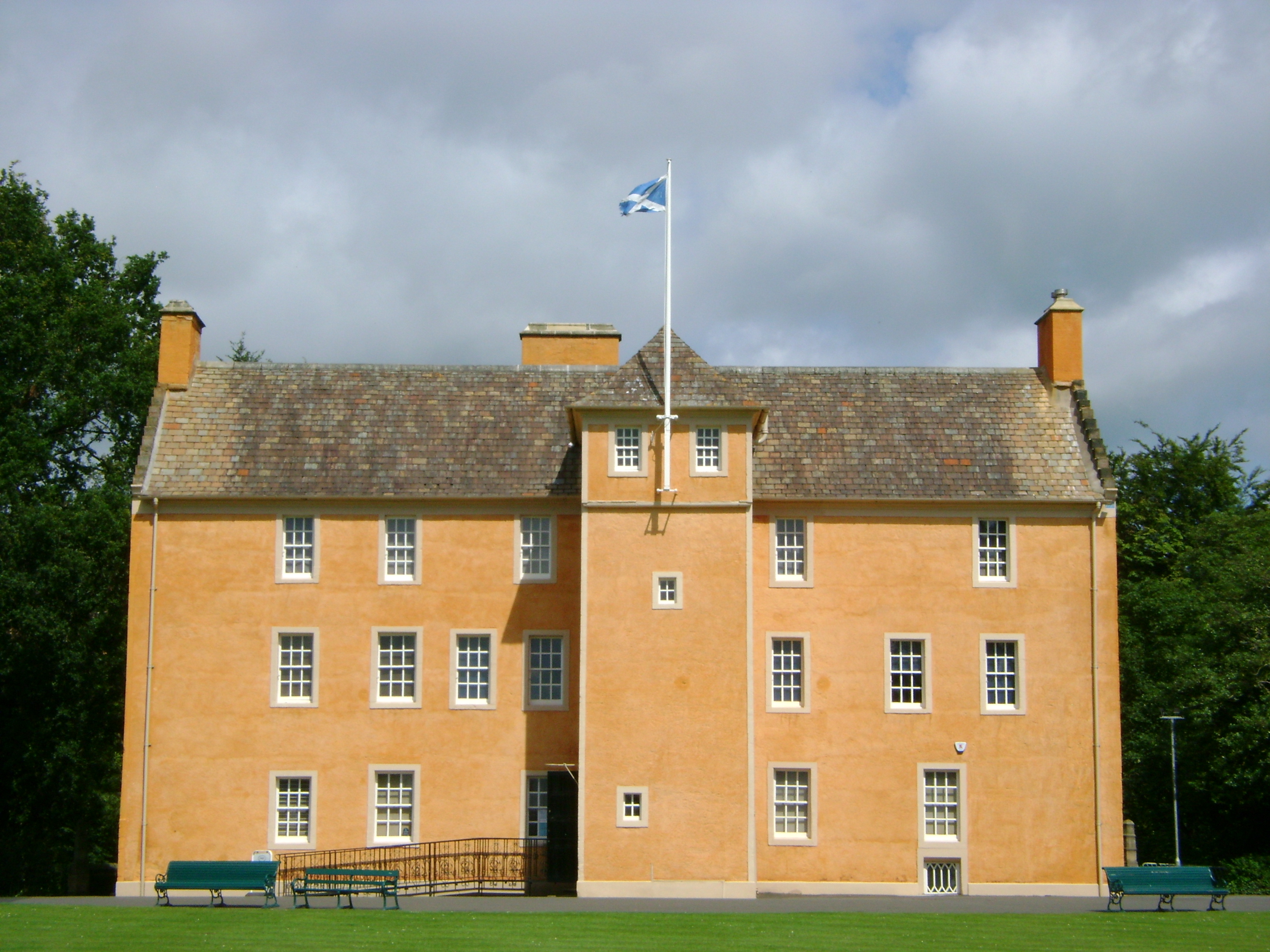 Pittencrieff House, Pittencrieff Park, Bridge Street, Dunfermline, Fife, Scotland, U.K.